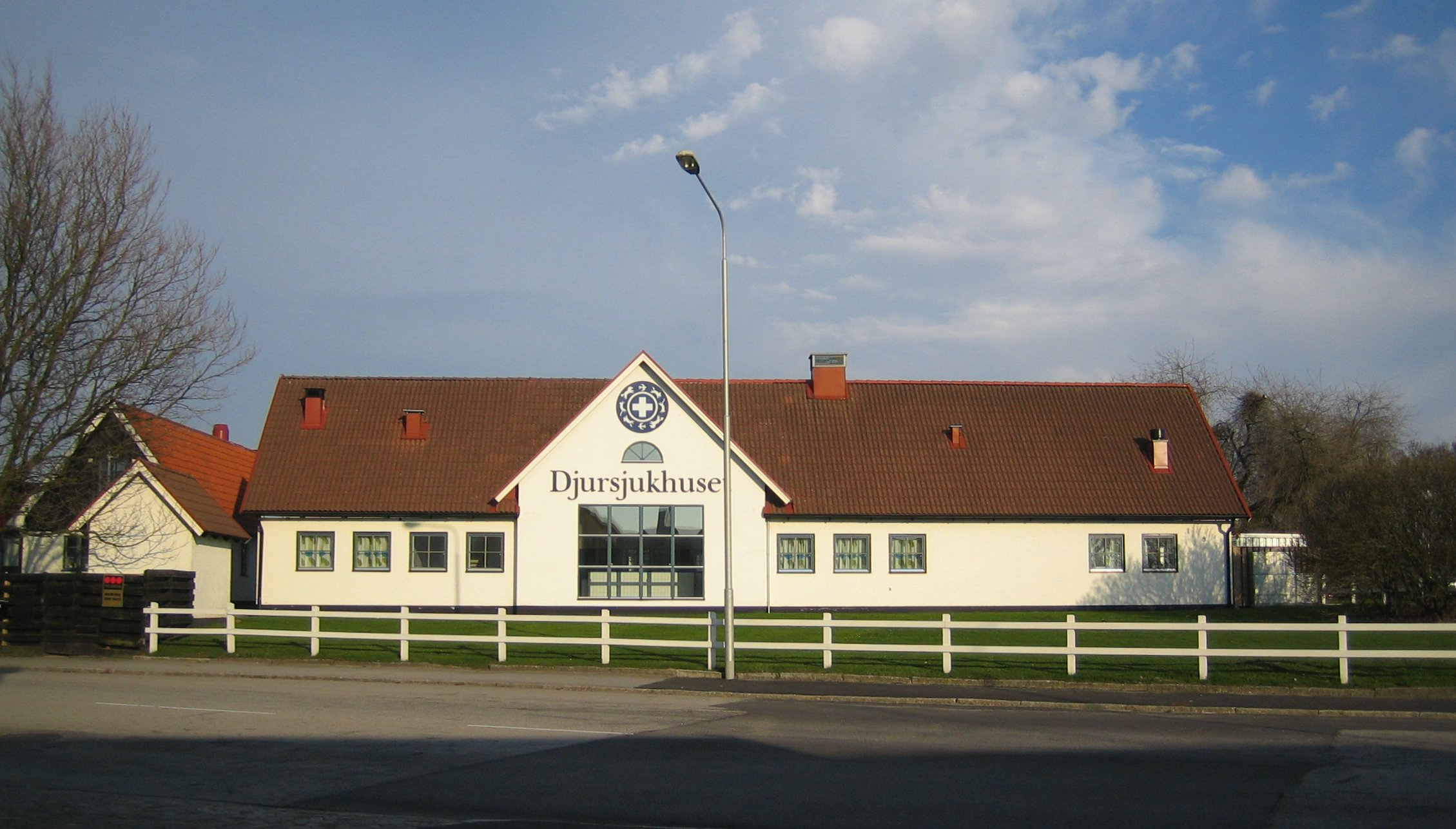 Veterinary hospital in Malmö, Sweden